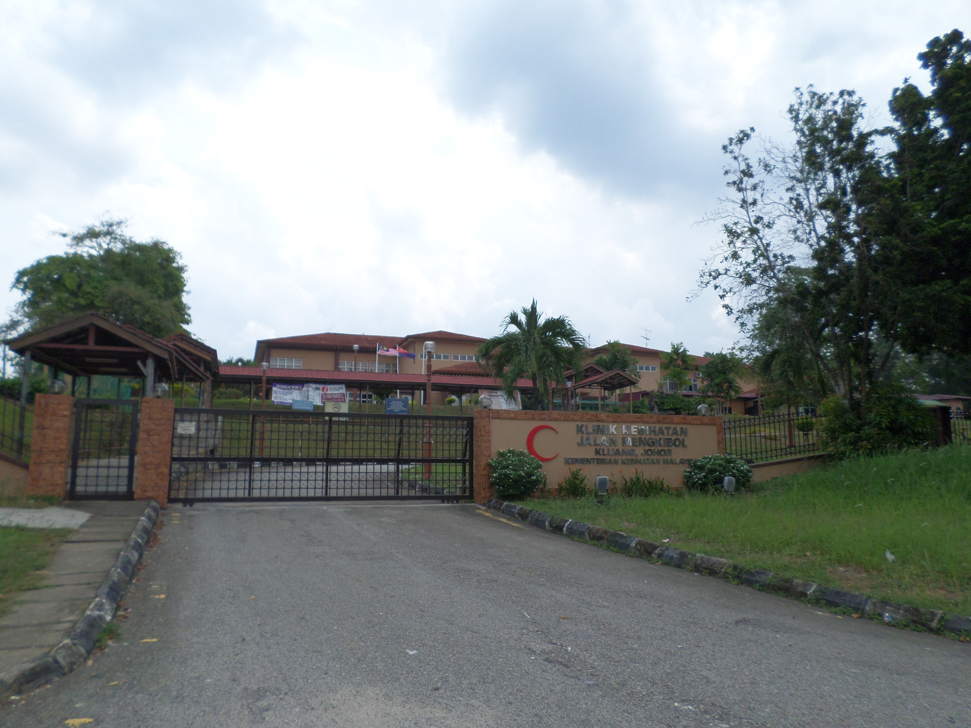 Mengkibol Street Health Clinic, Mengkibol, Kluang, Johor, Malaysia